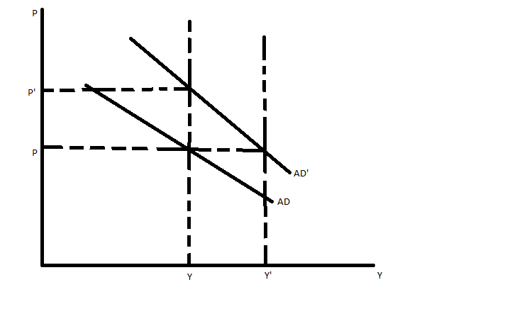 AS AD